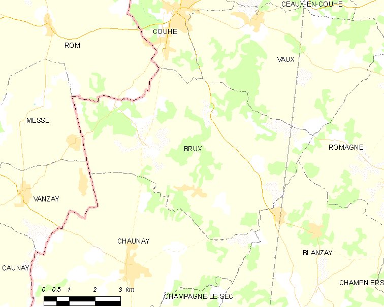 Map of French municipality Brux